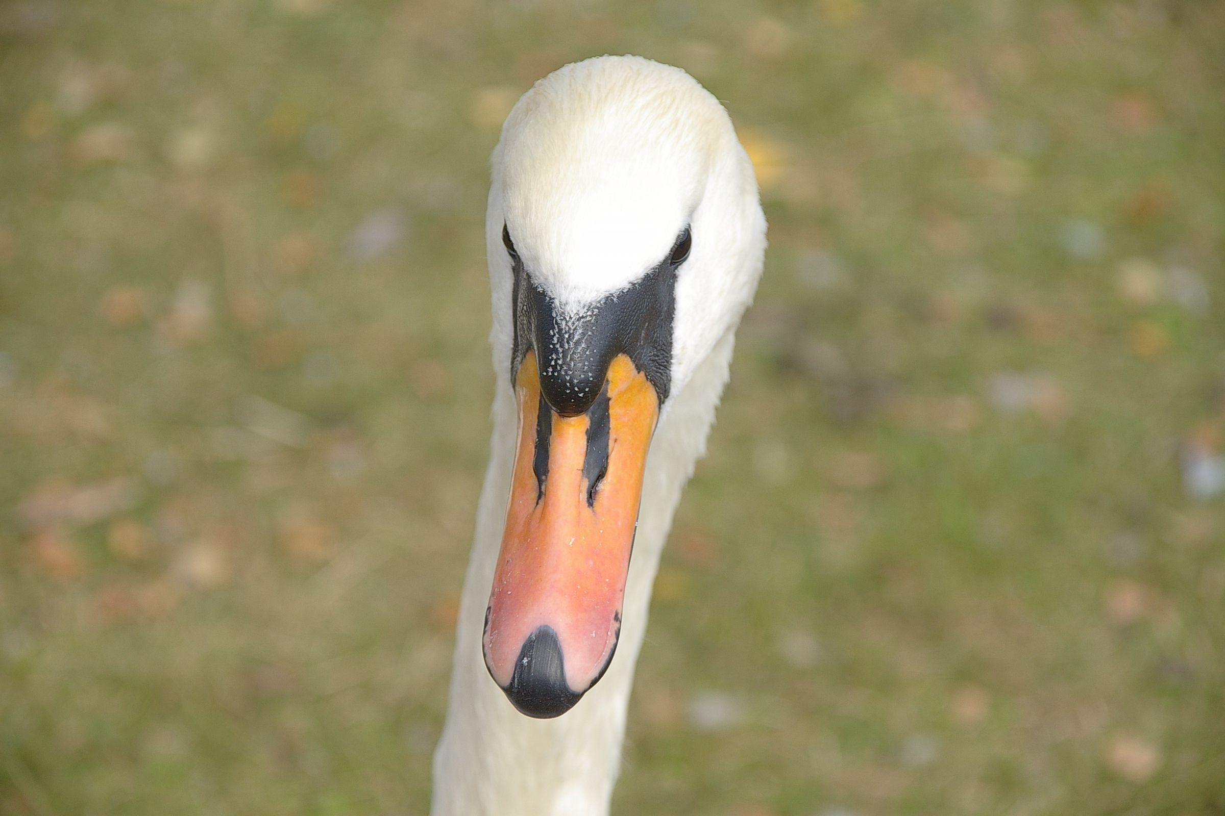 Swans at Ruislip Lido.